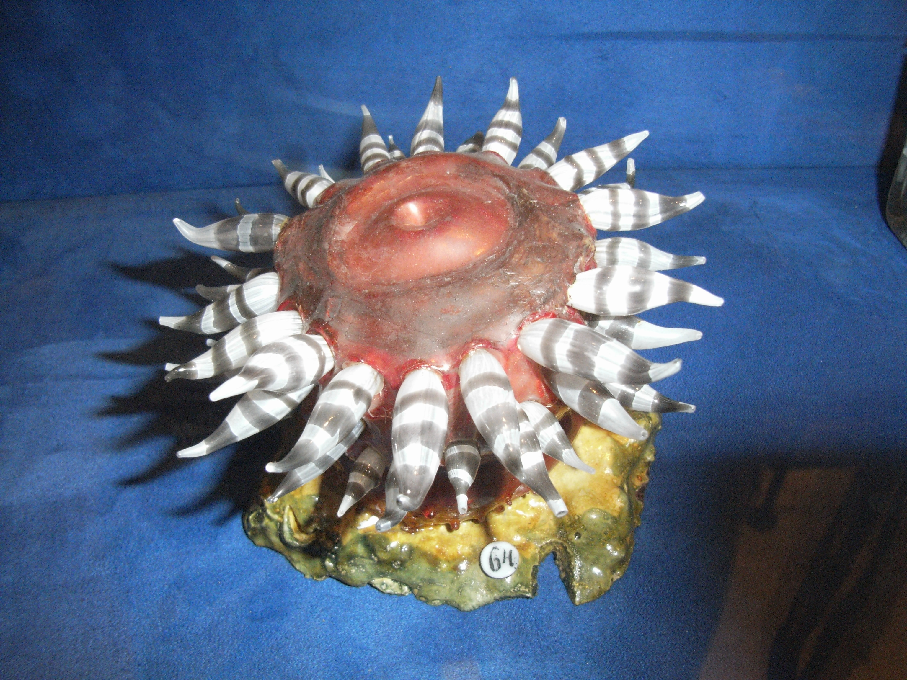 Leopold and Rudolph Blaschka Glass Sea Anemone.National Museum of Ireland (Natural History) Dublin